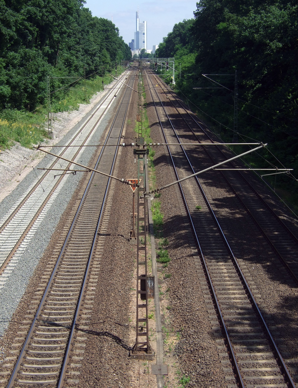 Railroad tracks of the Main-Neckar Railway in Frankfurt-am-Main, Germany. Northbound view from the bridge on Isenburger Schneise, a road through Frankfurt City Forest. At top center the Commerzbank Tower in the city’s bank district, Bankenviertel